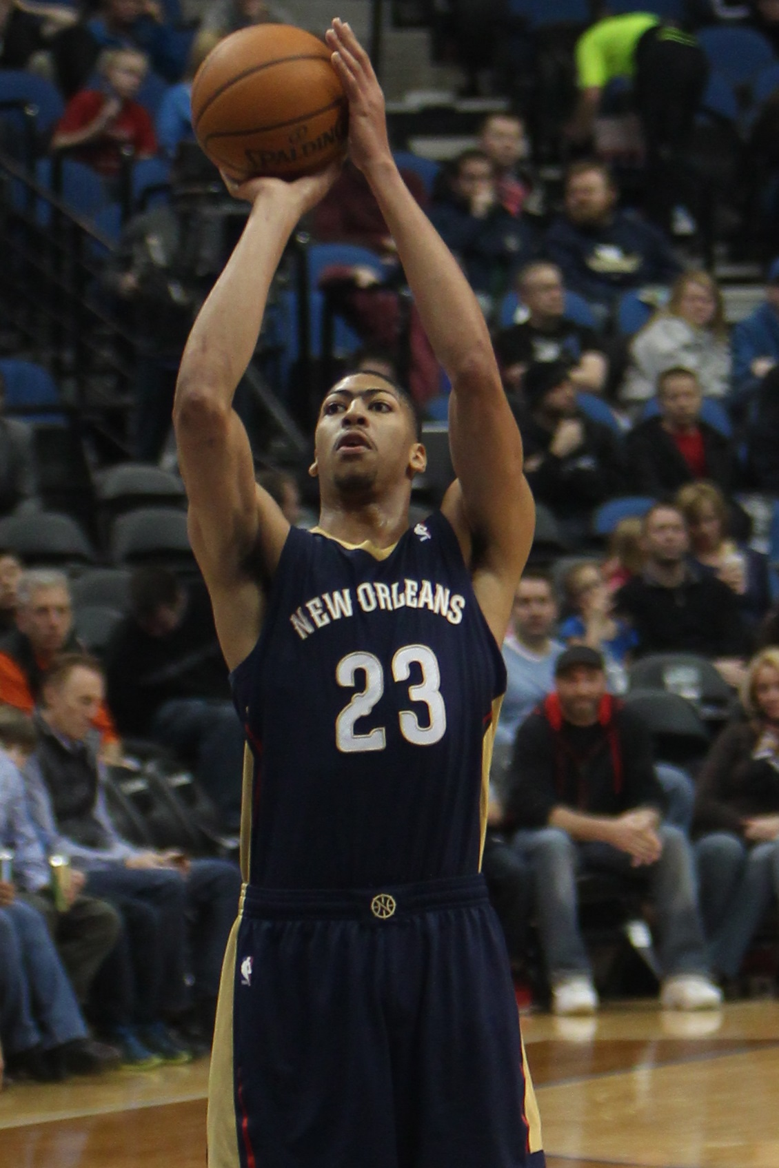 Anthony Davis (basketball) at the Target Center